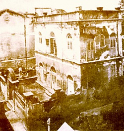 1933 image of Saraswati Mandir - House of Narmad at Surat, India.